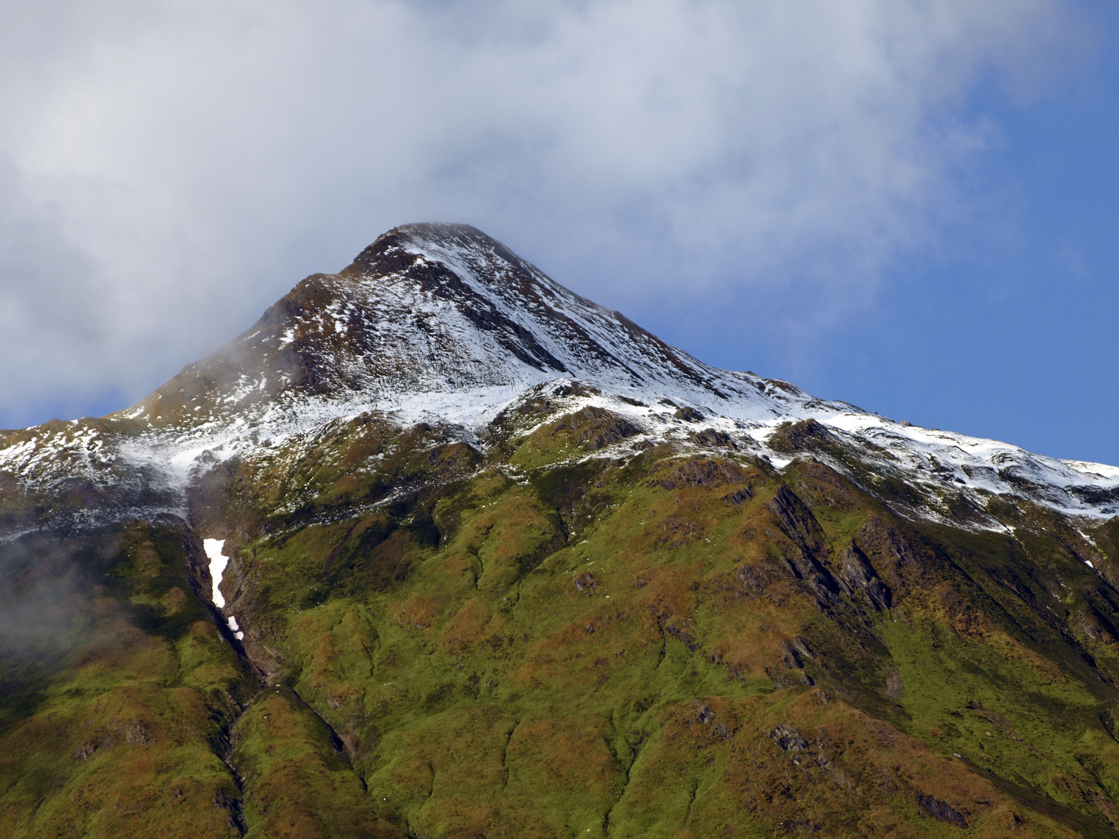 McGinnis Mountain Termination Dust, above the Mendenhall Glacier, Juneau - Southeast Alaska.